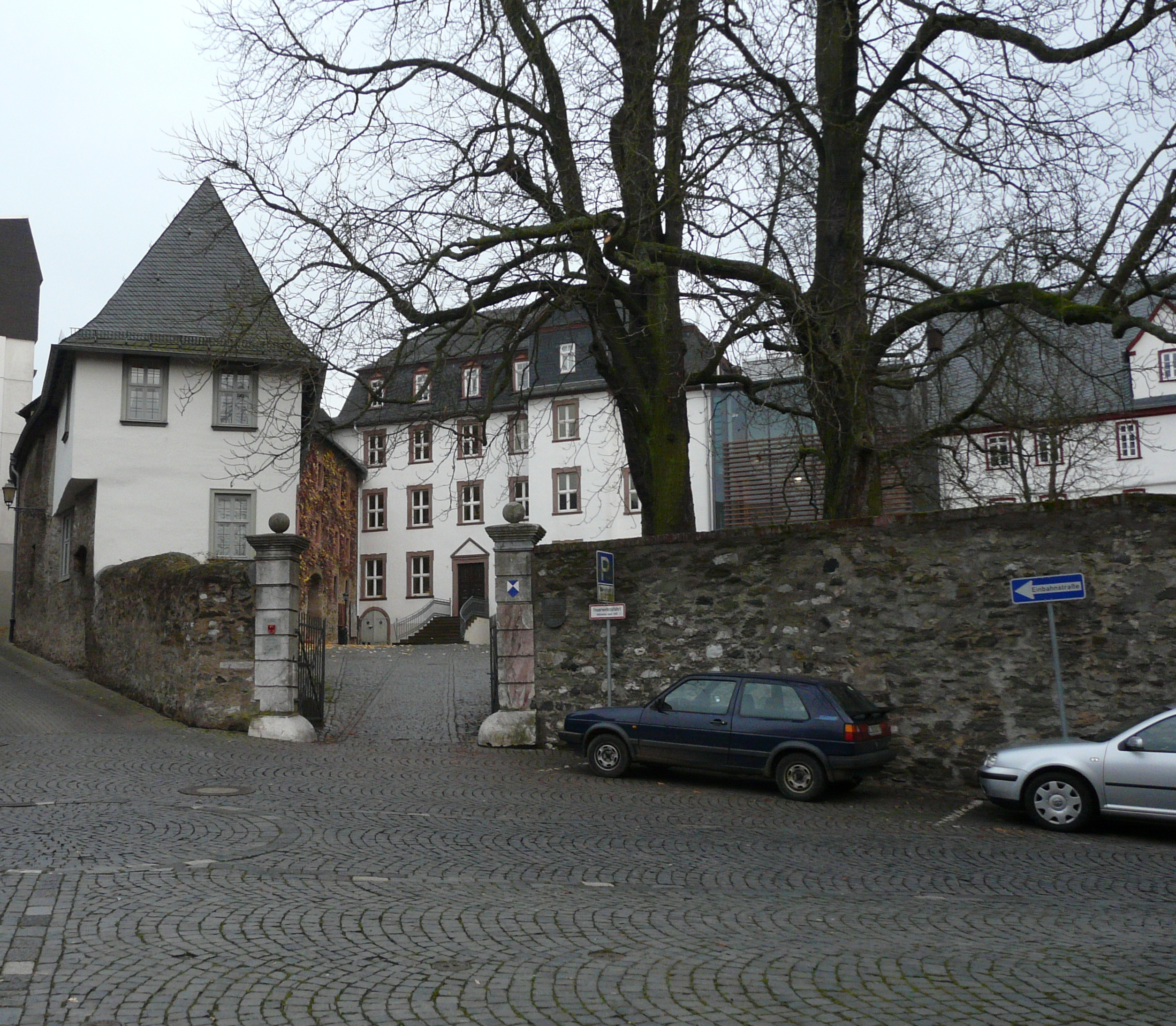 "Lottehof", named after Charlotte Buff and former courtyard of the Teutonic Knights, in Wetzlar, Hesse